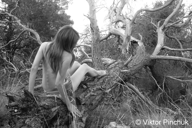 Work from album Pinchuk V. "NUances of Fantasy", ISBN 978-5-9909912-2-4.